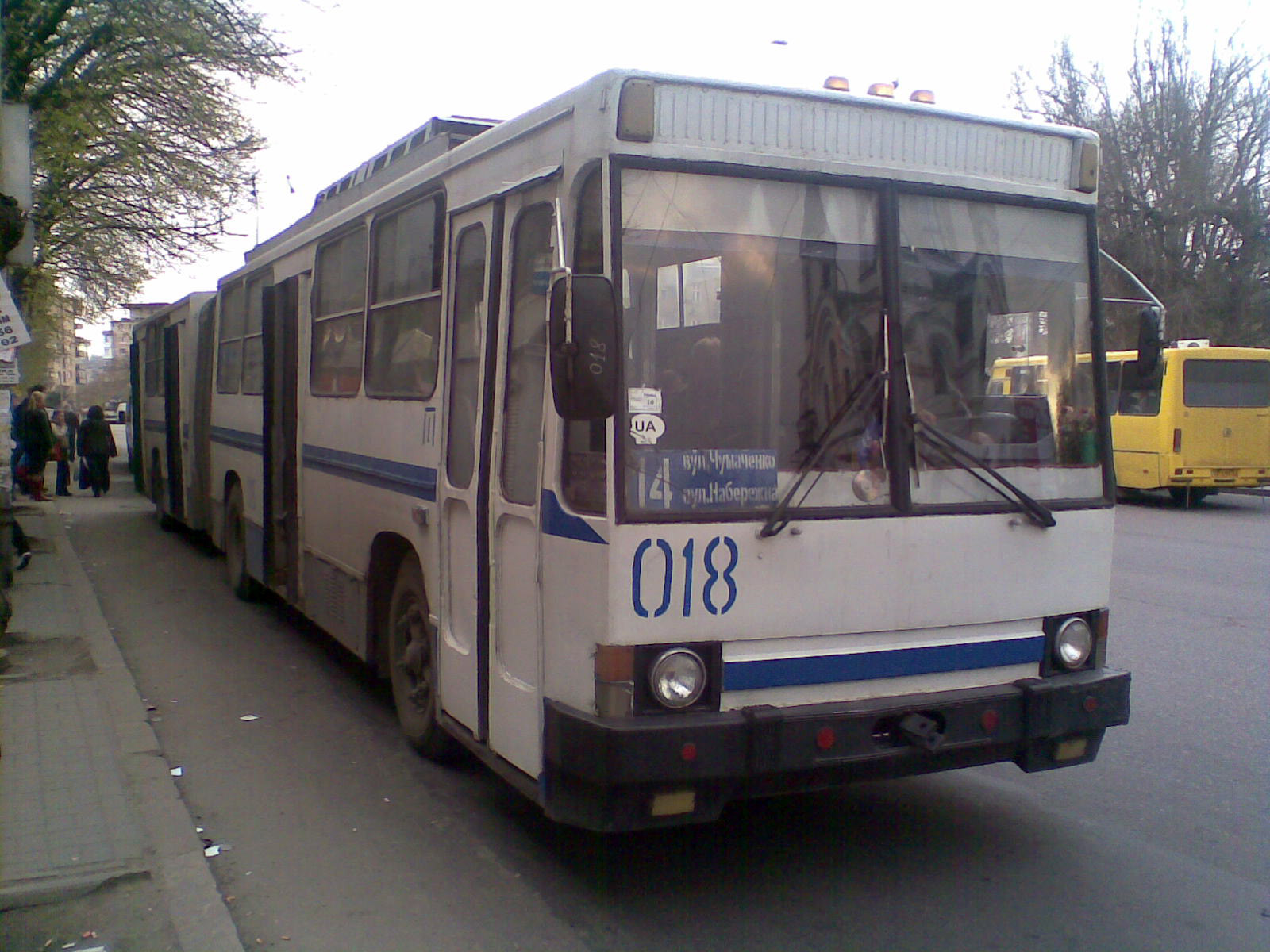 Trolleybuses in Zaporizhzhya